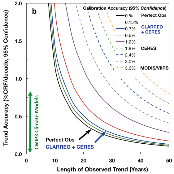 CRF trends detectable